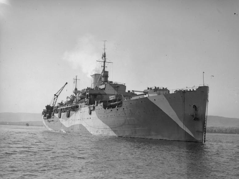 The Royal Navy during the Second World War HMS CORFU, armed merchant cruiser, showing her camouflage scheme at Greenock after a refit. This ship was formerly a P & O Passenger Liner